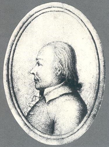 Carl Friedrich Fintelmann (1738-1811), royal court gardener at palace garden Charlottenburg (kitchen garden), Berlin, Germany